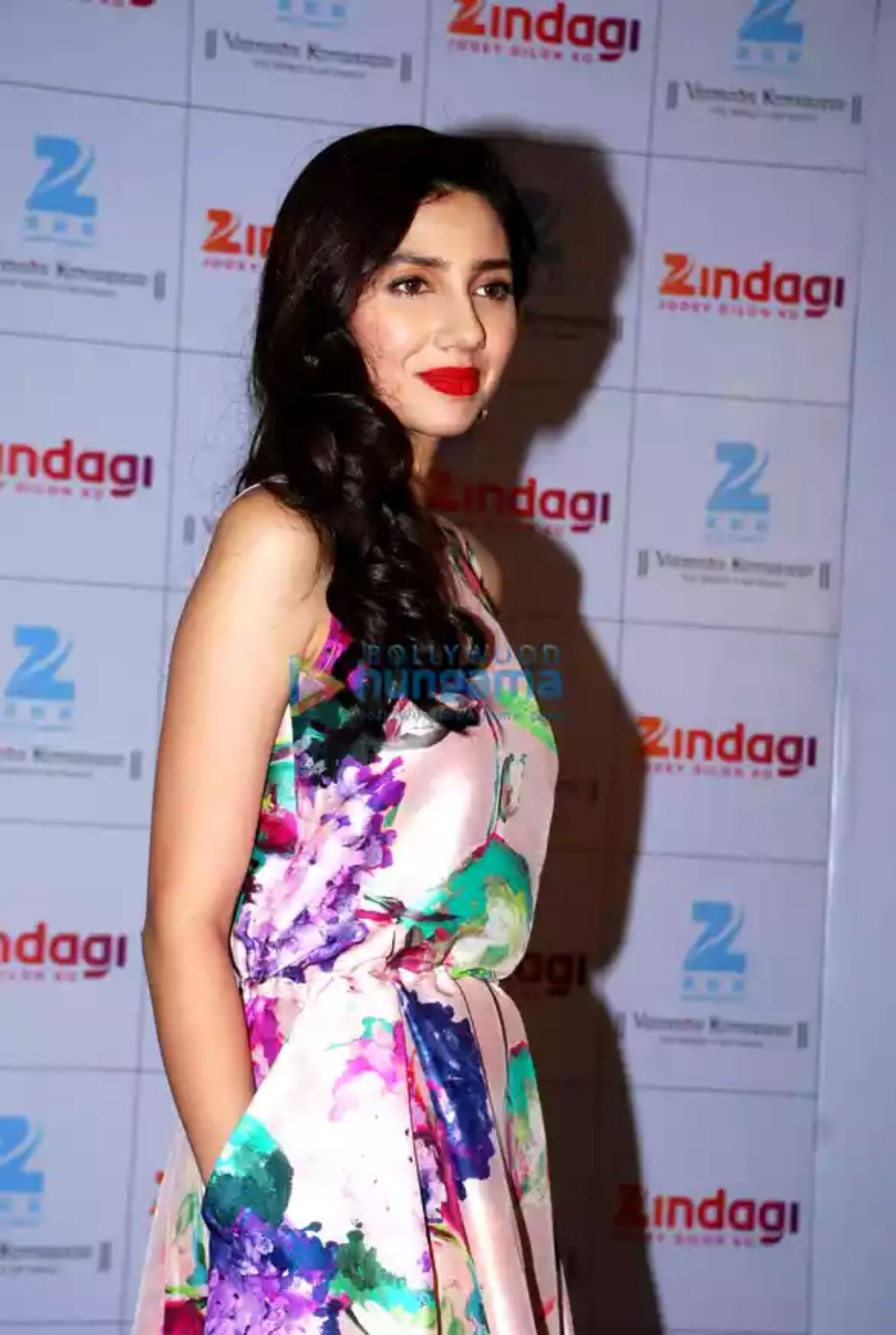 Pakistani actress Mahira Khan at graces Zindagi channel's press meet